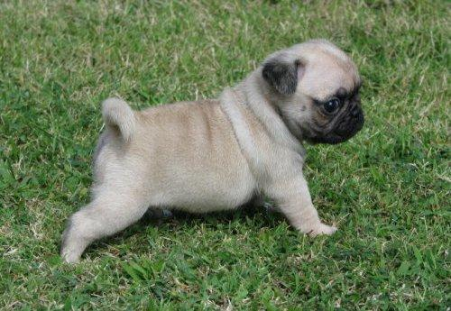 A puglet with a fawn-colored fur